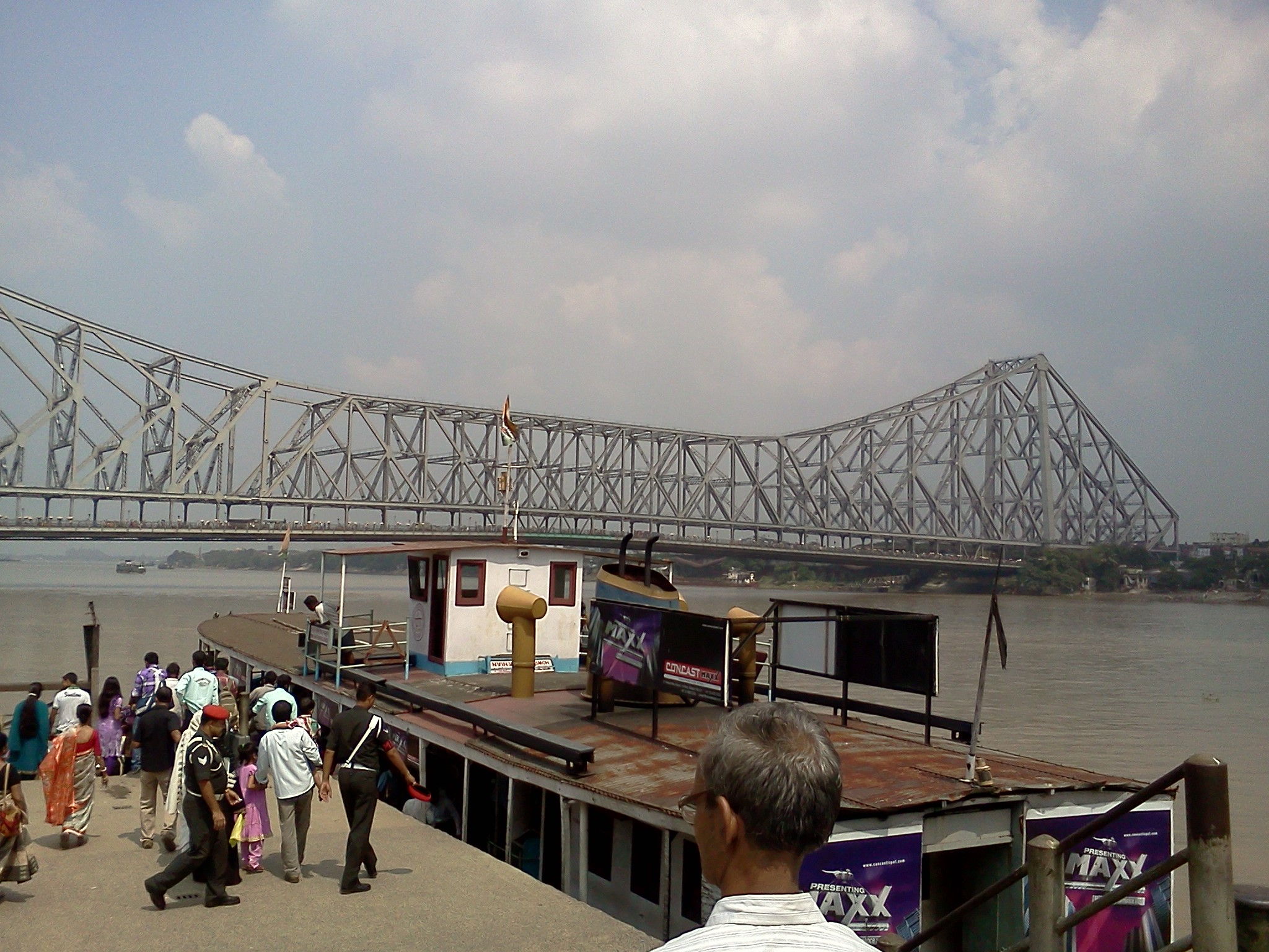 Hoogly river and Howrah Bridge from Babughat, beside Howrah Station.